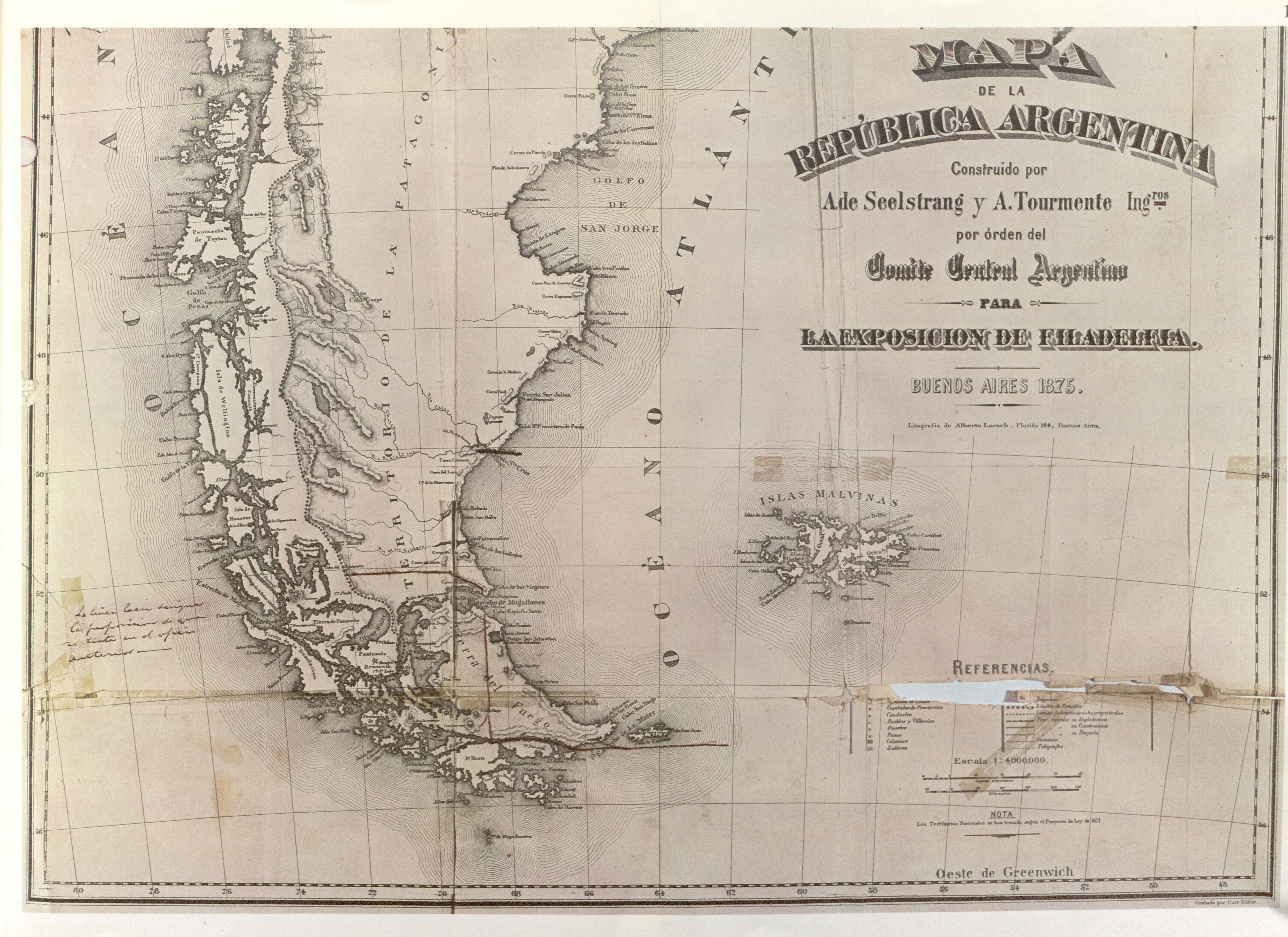 "Map showing the proposed transaction submitted in 1876 by Argentine minister Bernardo de Irigoyen to the Chilean minister in Buenos Aires This reproduction covers a sector of the map of the Argentine Republic made by Seelstrang and Tourmente, issued in Buenos Aires in 1875. The sector shown here was sent to the Chilean Foreign Ministry by Diego Barros Arana, Chilean Minister in Buenos Aires, attached to a communication dated 10 July 1876. On that map the Chilean Minister traced a red line to show the boundary proposed by the Argentine Foreign Minister, Bernardo de Irigoyen, in the course of the negotiations which preceded the signing of the Boundary Treaty of 23 July 1881. As may be seen from the map, the boundary proposed by Argentine Minister Irigoyen, in the extreme southern region, divided the Isla Grande de Tierra del Fuego and thereafter followed the Beagle Channel and continued as far as the Isla de los Estados. Navarino, Picton, Nueva and Lennox Islands, together with all the other islands and islets continuing southwards as far as Cape Horn, were attributed to Chile according to the Argentine proposal. That proposal must be retained later, in 1881, at the time of signing the Boundary Treaty of 1881 between the two countries, with a few modifications in the region of the Magellan Strait. Moreover, the Argentine map of Seelstrang and Tourmente of 1875 enlightens another aspect of great interest in respect of the Argentine pretensions during the Beagle Conflict. In it it is shown a limit between both Republics which follows all along the Magellan Strait, leaving for Argentina all the archipielagoes to the South of it, wich proves that Argentina claimed large areas situated in the Pacific. That contradicts its 1978 thesis on the "oceanic distribution" in function of the Cape Horn meridian, based on the "uti possidetis juris" of 1810 "